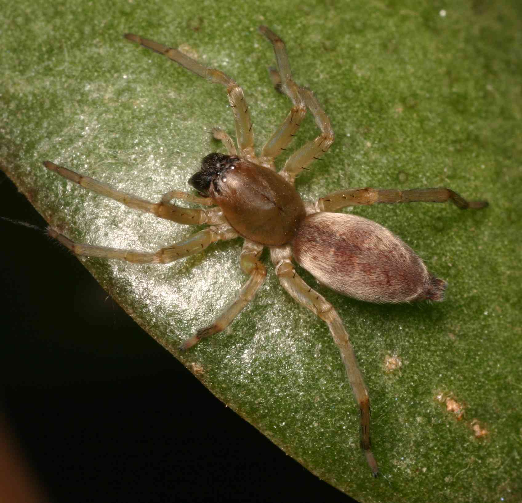 A leafcurling sac spider (Clubiona) photographed in Bielefeld, North Rhine-Westphalia, Germany.